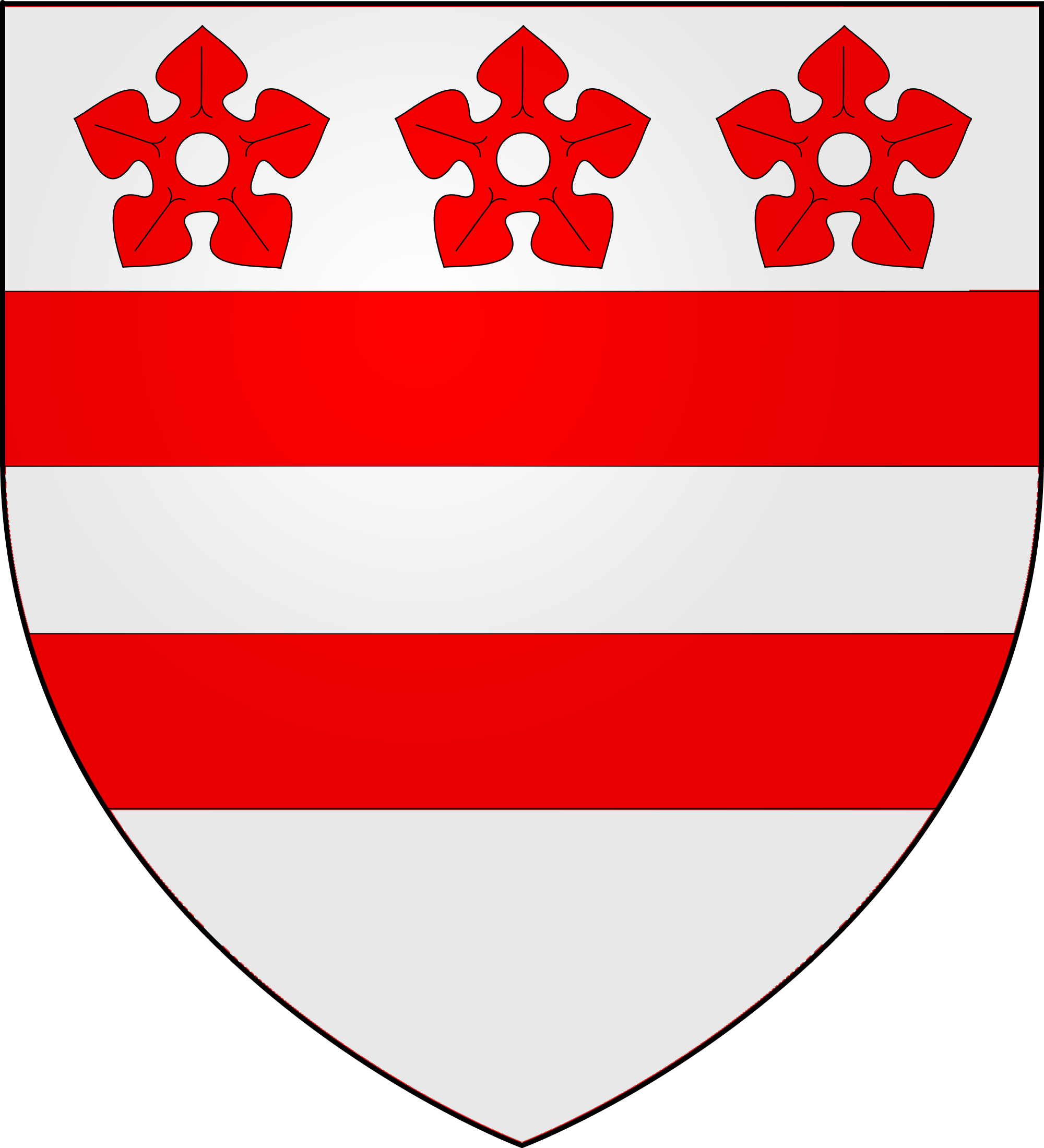 Detailed in A Genealogical and Heraldic History of the Extinct and Dormant Baronetcies as: Argent two bars Gules, in chief three cinquefoils of the second. Denton of Hillesdon in Buckinghamshire